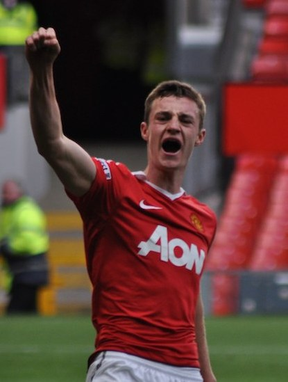 Will Keane celebrates scoring a goal for Manchester United reserves